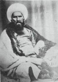 Hajj Molla Hadi Sabzavari, Iranian philosopher, mystic theologian and poet.